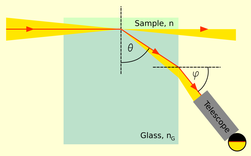 Sketch of the Pulfrich refractometer, english version.